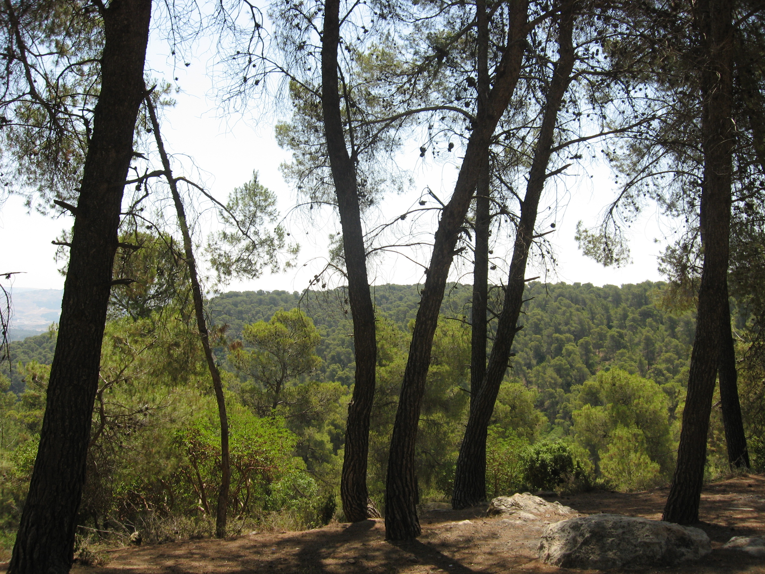 Dibeen Forest Reserve (in 2008) — located in northwestern Jordan . Pine and oak woodlands — in an ecoregion of the Mediterranean forests, woodlands, and scrub biome.